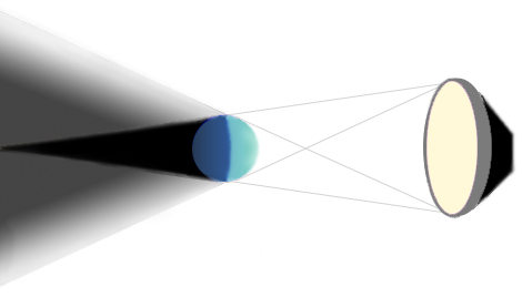 Fromation of umbra and penumbra